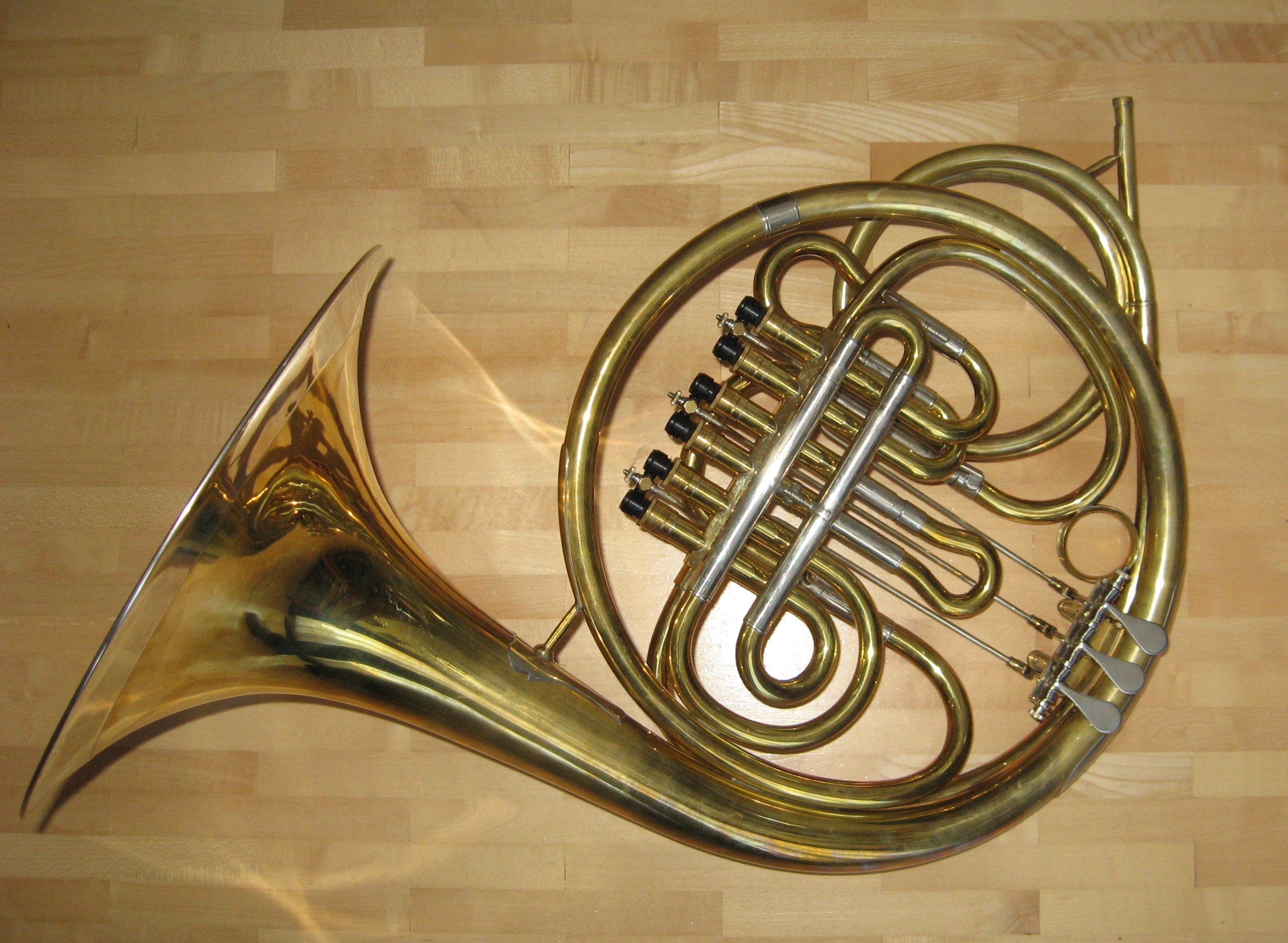 Vienna horn on parquet floor